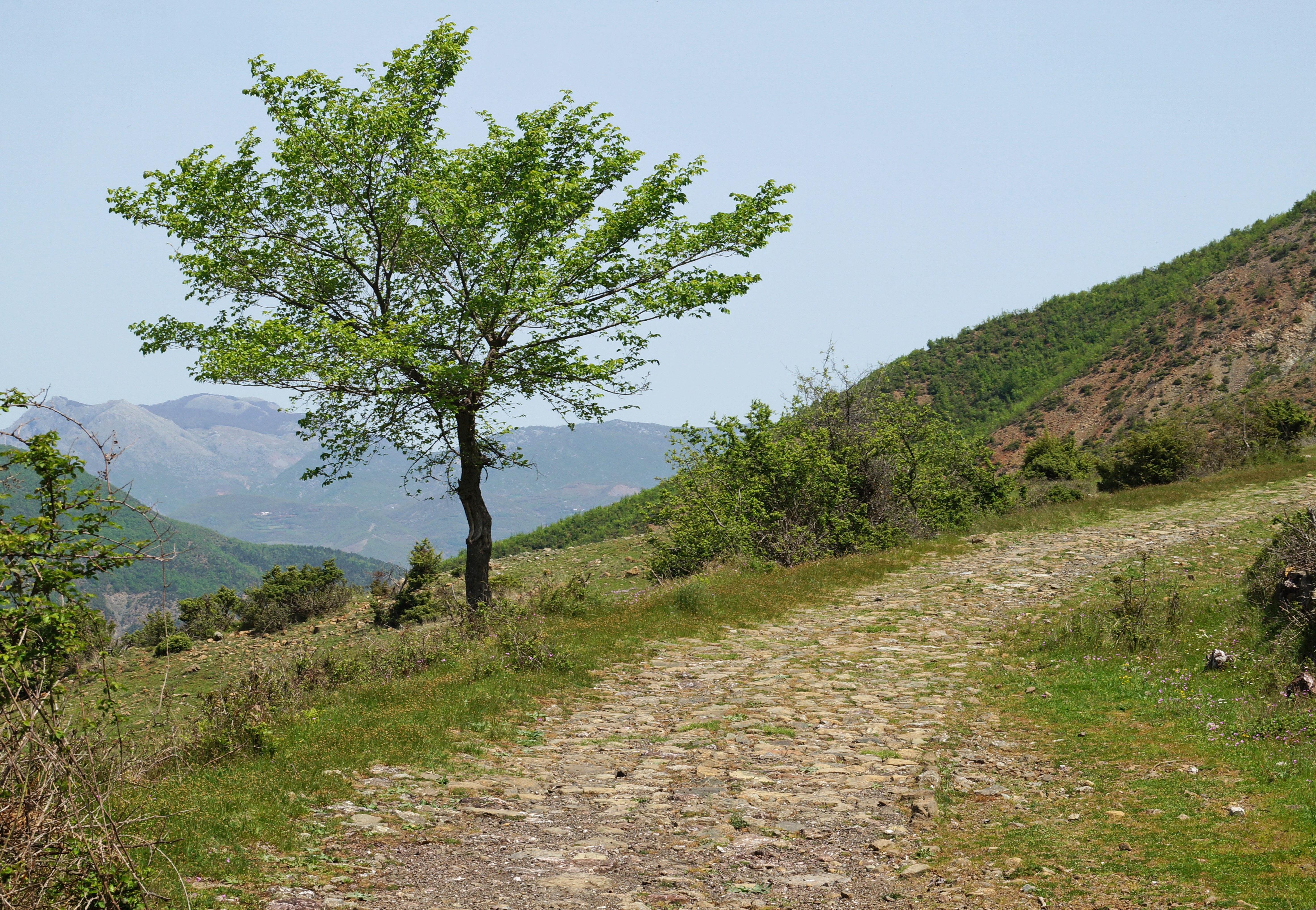 A piece of the original Roman Via Egnatia in the Polis mountains of Librazhd district, Albania